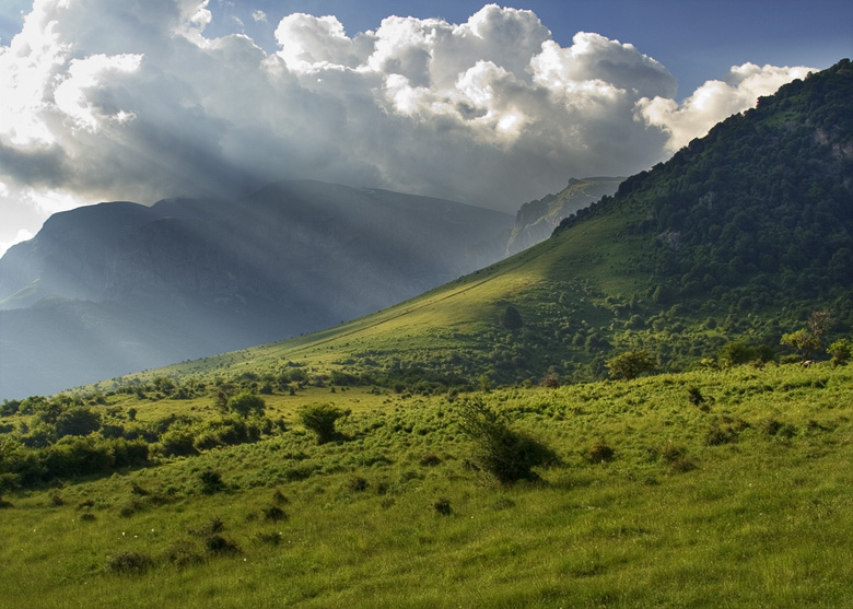 Central Stara planina, between Panitzite and hut "Ray"